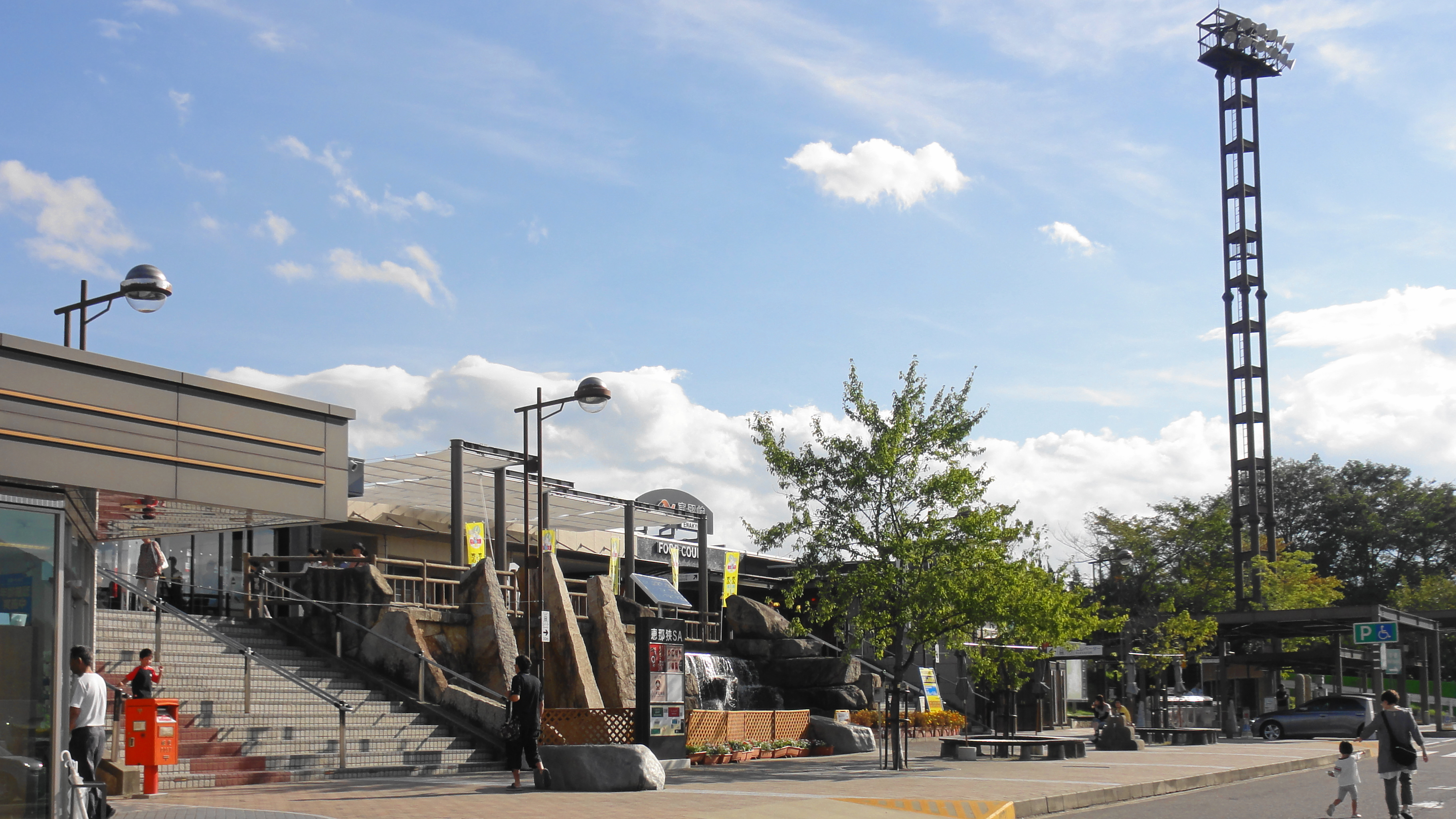 Enakyo Service Area nobori,Gifu prefecture, Japan